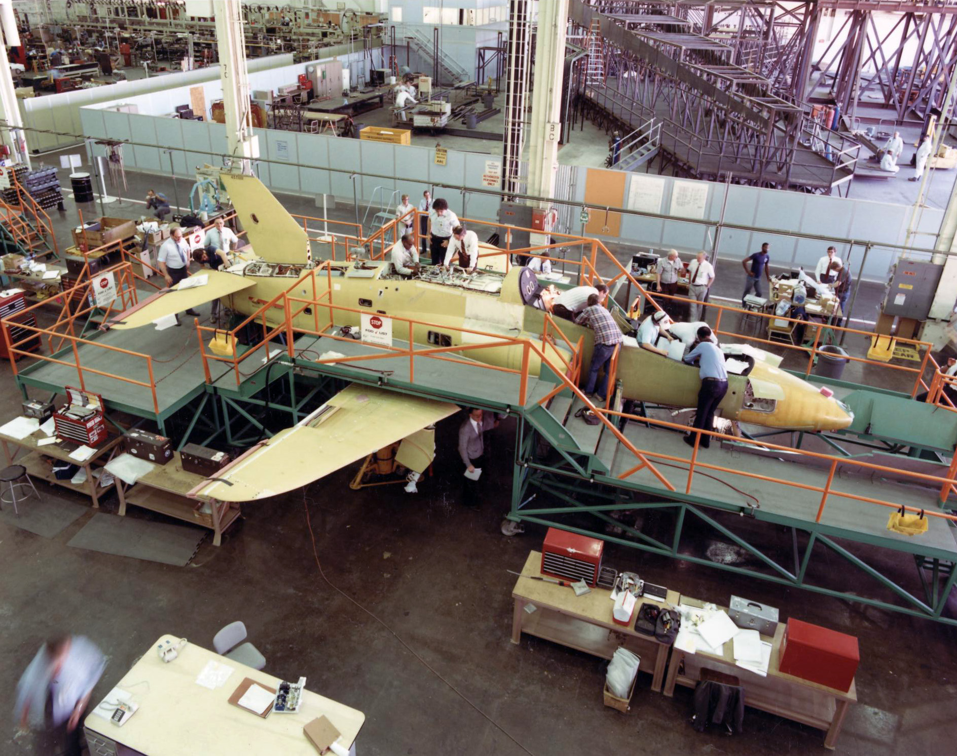 The first U.S. Navy T-45A Goshawk (BuNo 162787) pictured on the assembly line at the McDonnell Douglas facility at Long Beach, California (USA).